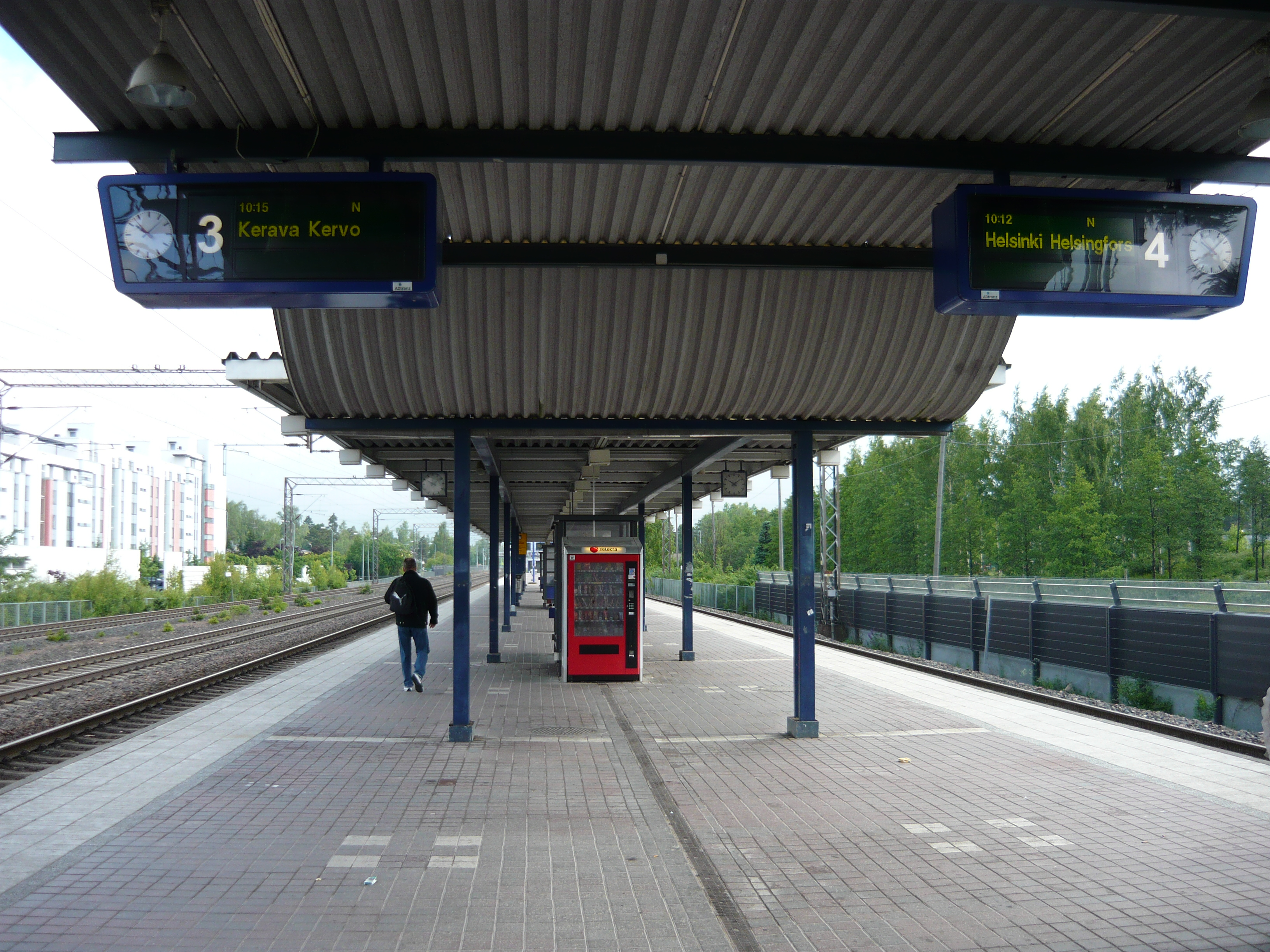 Puistola (Parkstad) railway station, Tapulikaupunki (Stapelstaden), Helsinki